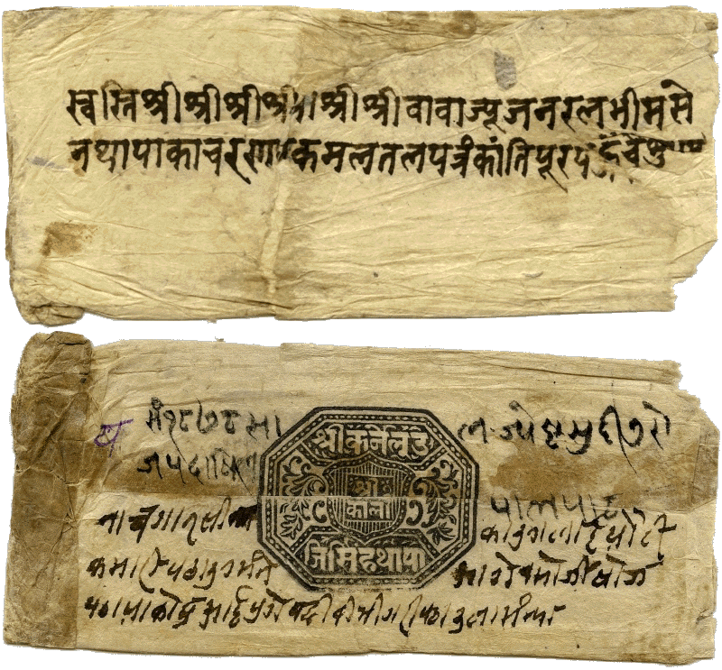 Colonel Ujir Singh Thapa 's handwritten letter to PM Bhimsen Thapa on 1878 Bikram Sambat (1821 AD), with the cover seal of Ujir Singh